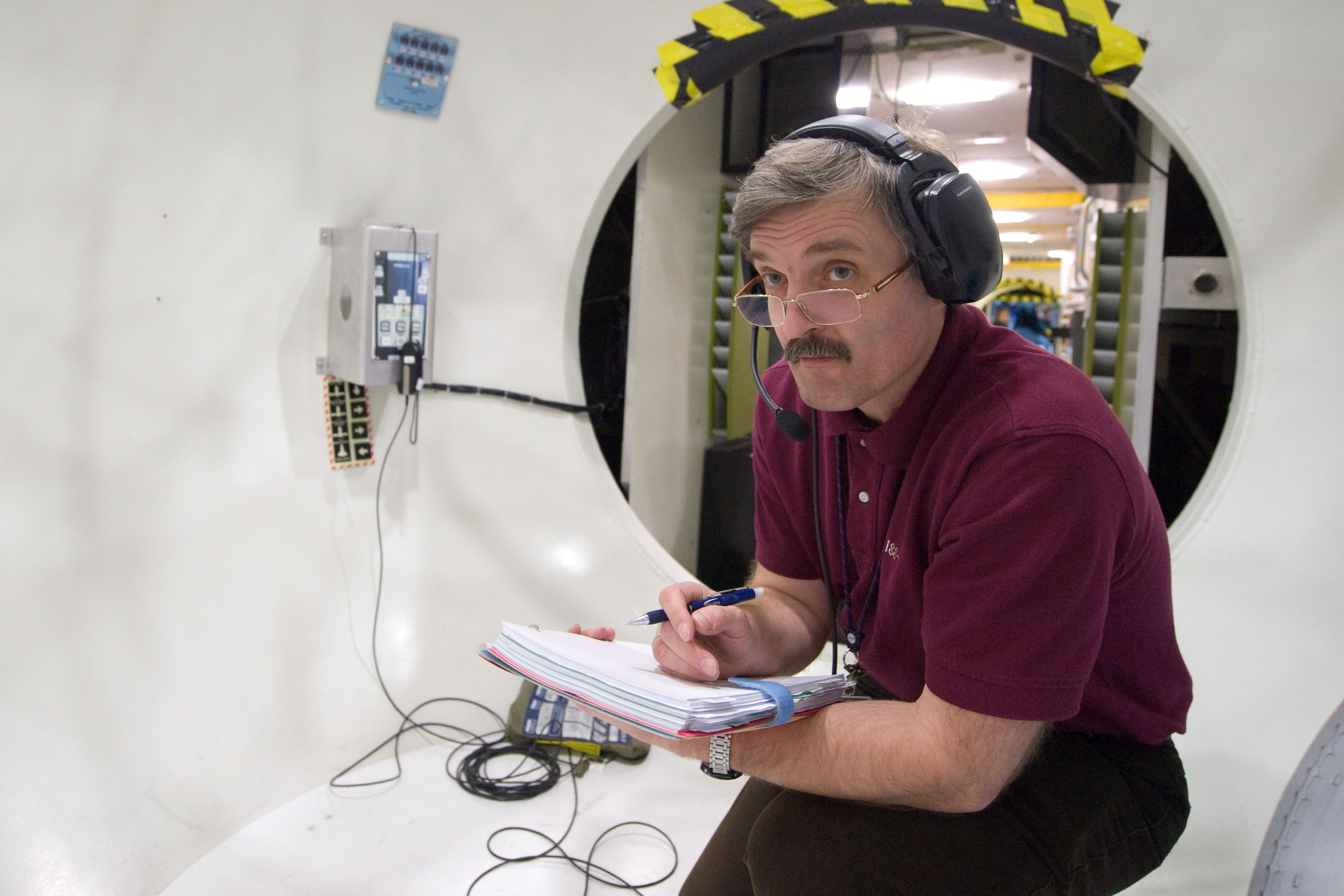 Russian cosmonaut Alexander Kaleri, Expedition 25/26 flight engineer, participates in a training session in an International Space Station mock-up/trainer in the Space Vehicle Mock-up Facility at NASA's Johnson Space Center.